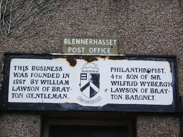 Sign To be found above the door of Blennerhasset Post Office